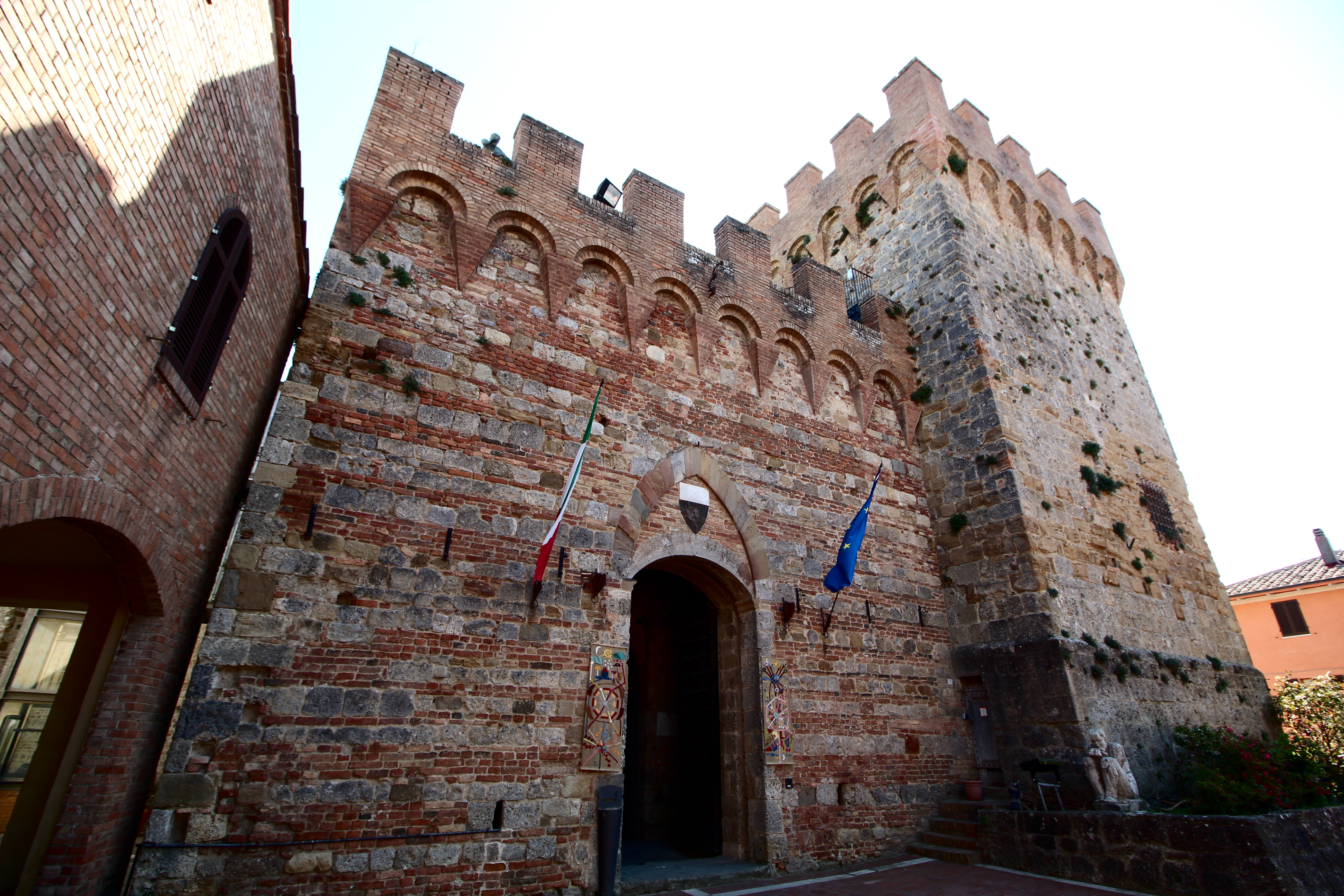 Rocca di Casole d'Elsa (also Castello di Casole d’Elsa or Rocca Senese), historical center of Casole d'Elsa, Province of Siena, Tuscany, Italy. Today the town hall of Casole d'Elsa